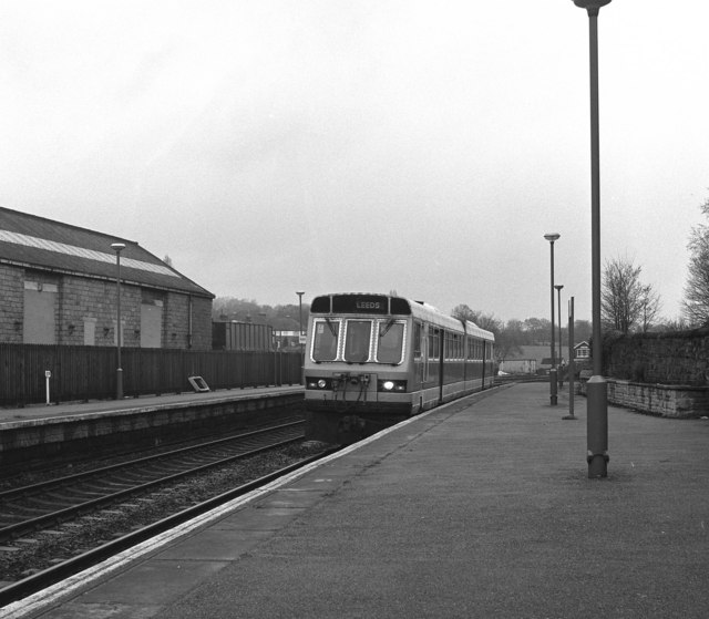 Horsforth station, looking north